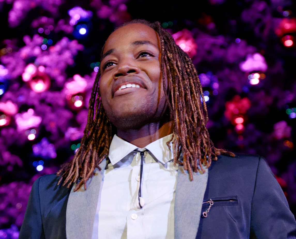 Leon Thomas (with Vali) performing live at The Citadel Outlets' 12th Annual Tree Lighting Concert in Commerce CA on November 9th, 2013.